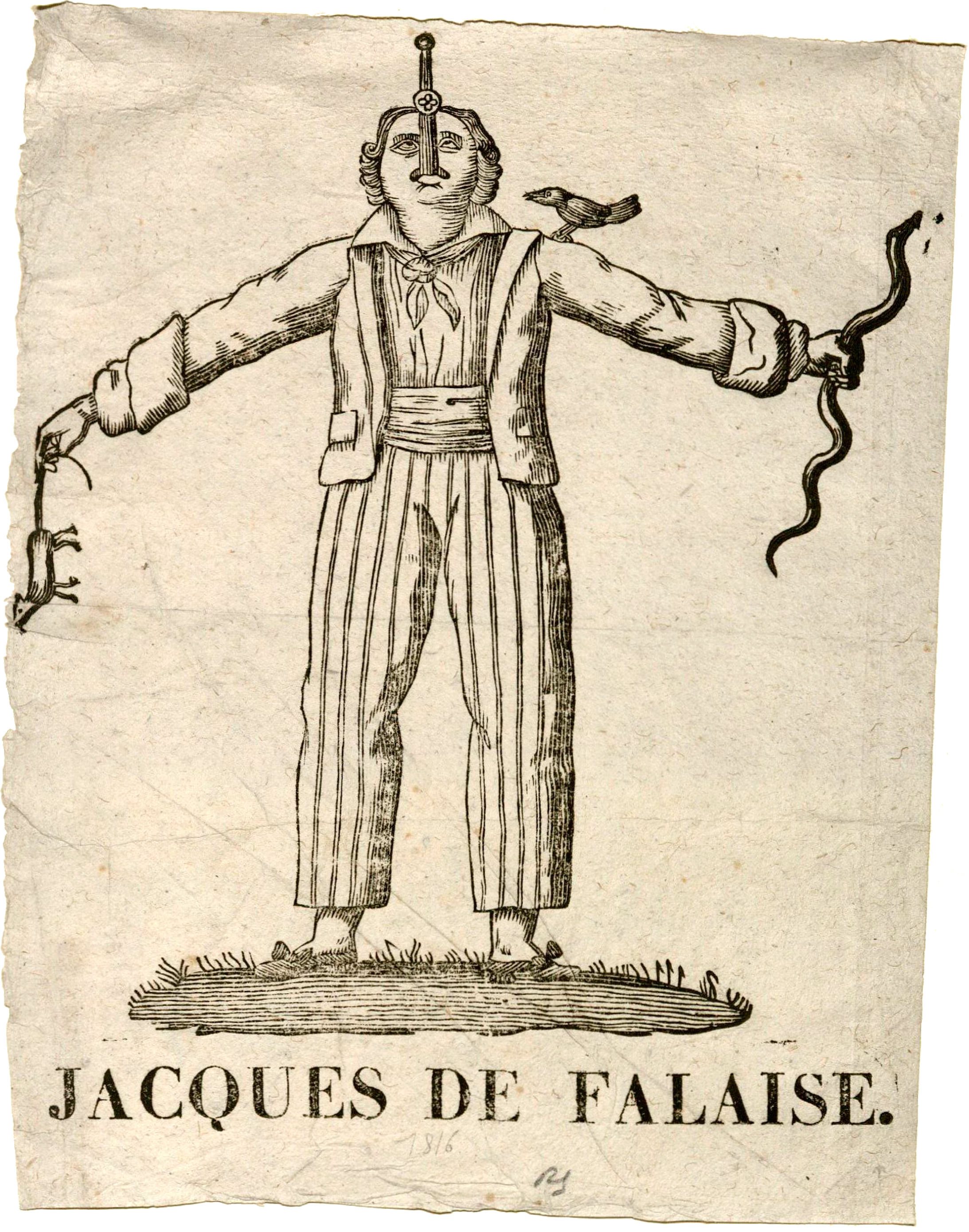 Portrait woodcut print. Jacques de Falaise standing, balancing a sword in his mouth while holding a live snake and rat in his hands, with bird perched on his shoulder. 22.7 x 17.8 cm.